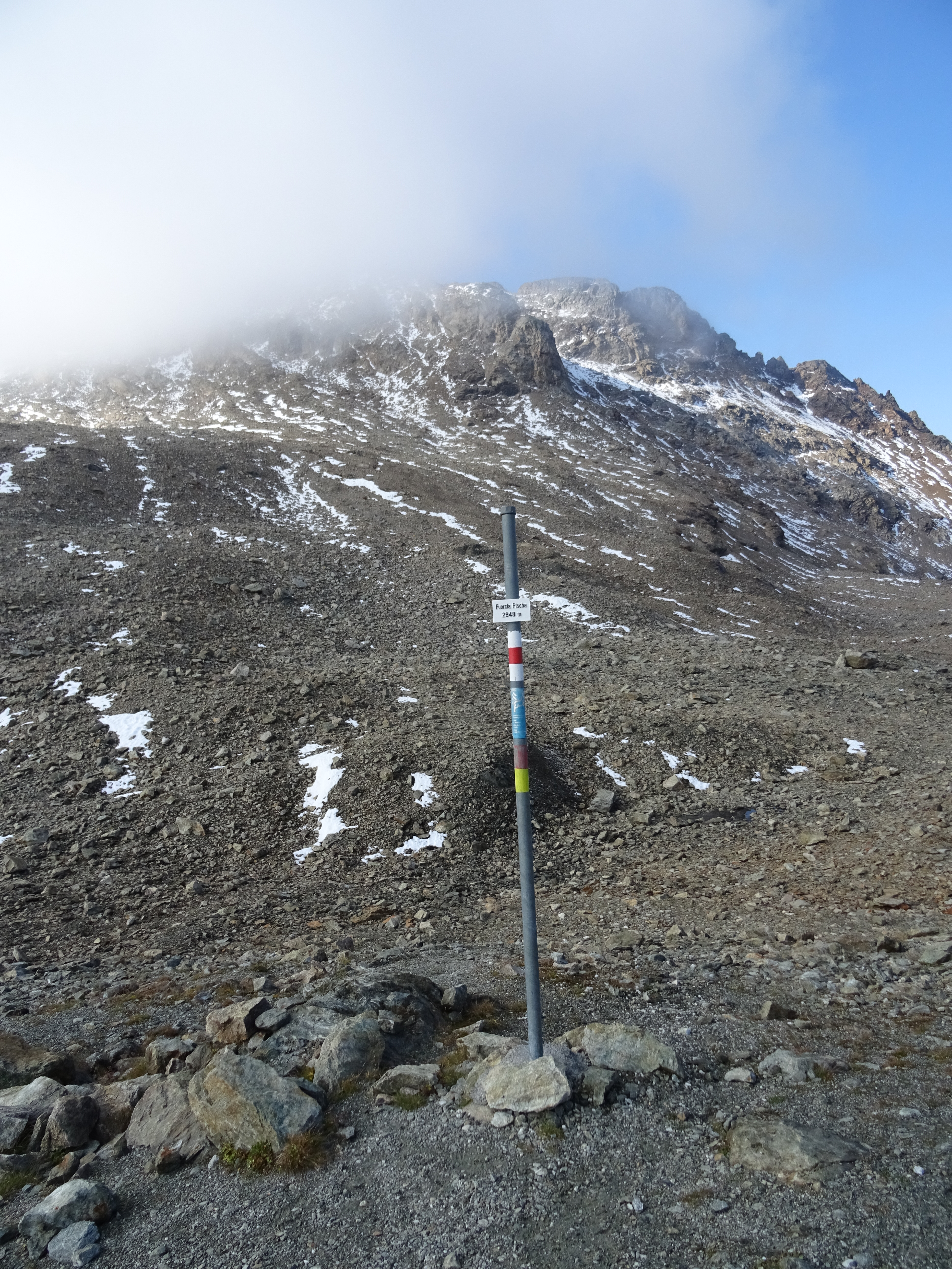 Pole on Fuorcla Pischa (Pontresina, Grison, Switzerland)